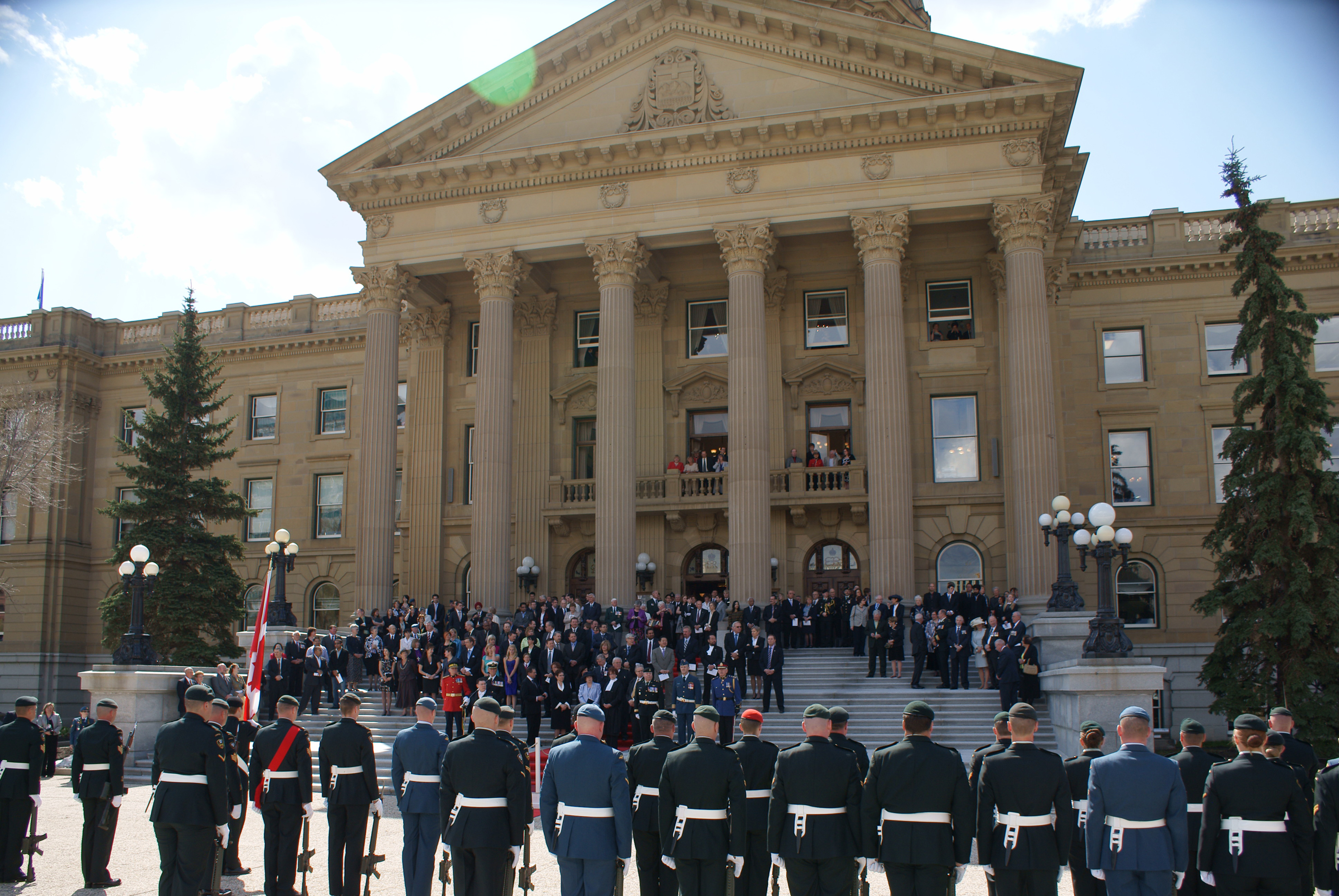 It was an auspicious day when retired Colonel Colonel Donald Ethell OC, OMM, AOE, MSC, CD was sworn in as Alberta's provincial Lieutenant Governor on Tuesday, May 11, 2010 at Alberta's Legislature Building in the capital city of Edmonton. Armed forces present at the swearing in ceremony accompanied by the traditional 15 gun salute which marks the taking of the oaths of office This illustration was made by Julia Adamson Please credit this if used outside Wikipedia